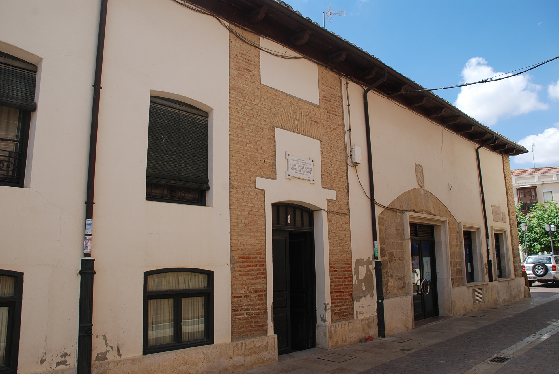 Birthplace of Íñigo López de Mendoza, Marquis of Santillana, in 1398 in Carrión de Los Condes (Palencia, Castile and León).